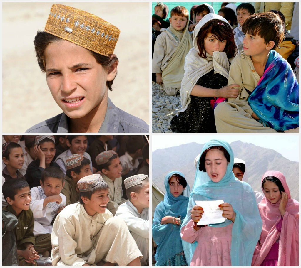 Collage of Pashtuns from the following provinces: 1. Paktia, 2. Khost, 3. Kandahar, and 4. Nangarhar.